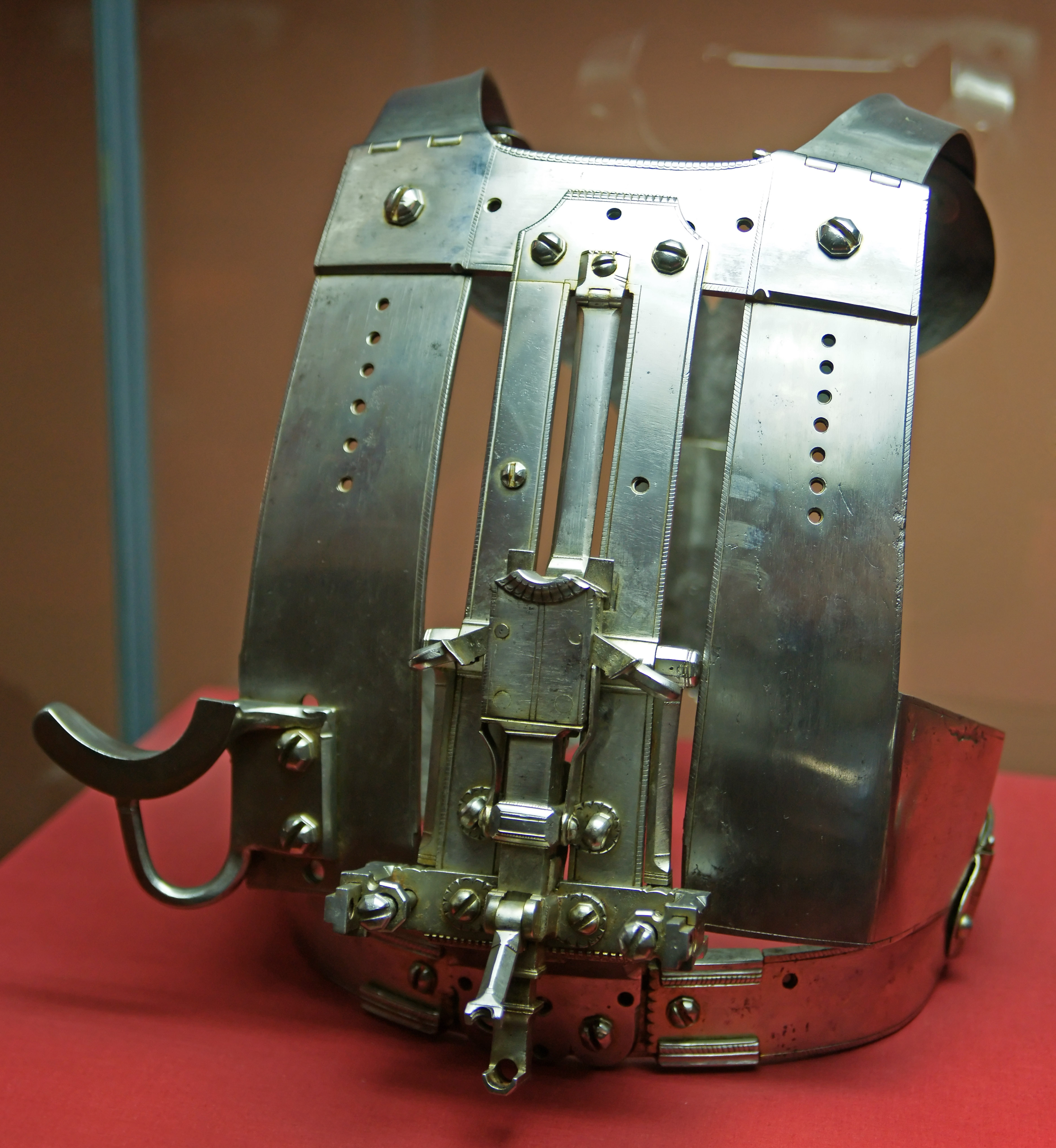 Mechanical breastpiece of Emperor Maximilian I for the Bundrennen contest. It is designed to throw off a breast-mounted shield if hit with the lance.